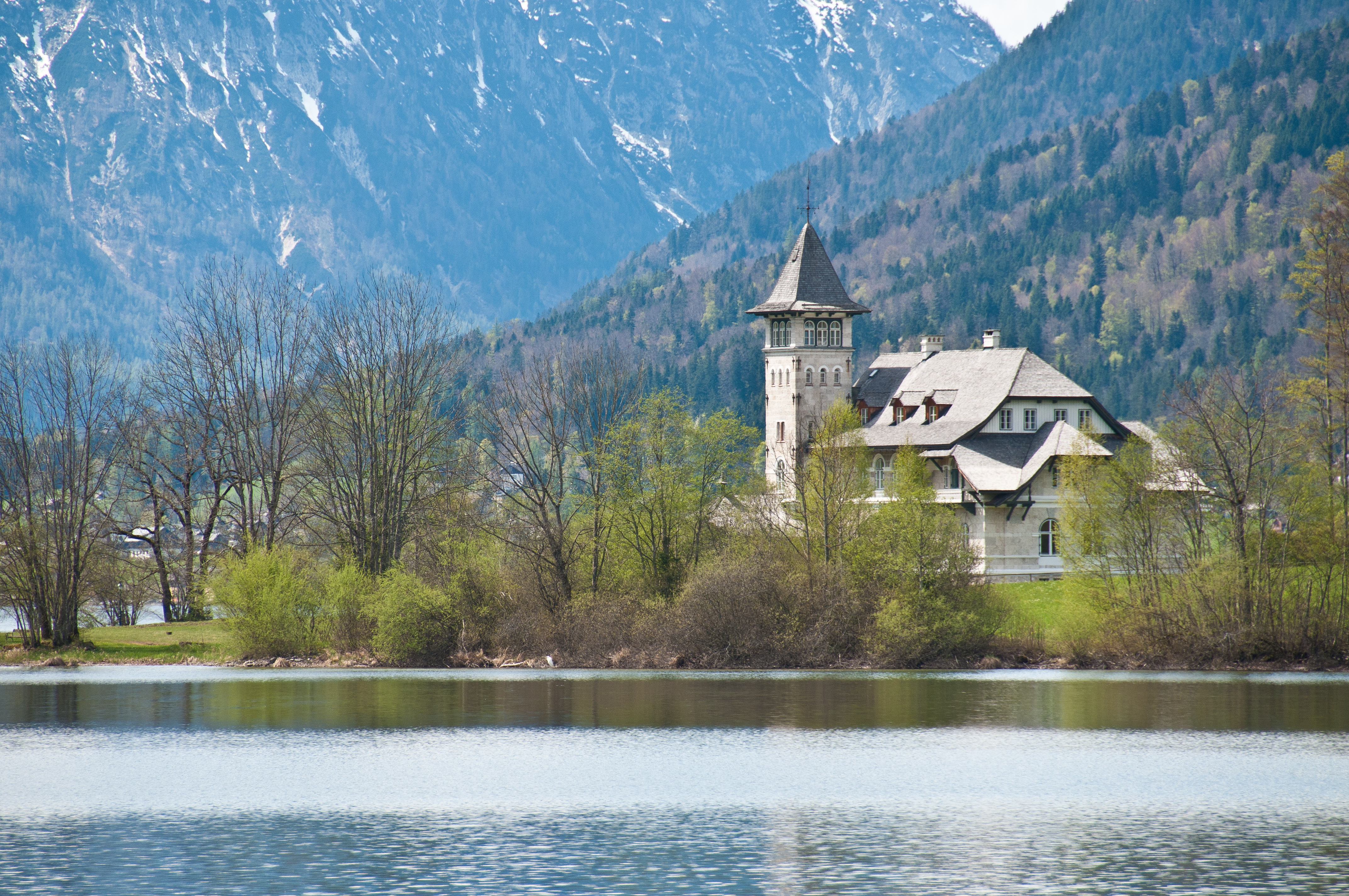 The Schloss Grundlsee at lake Grundlsee in Austria